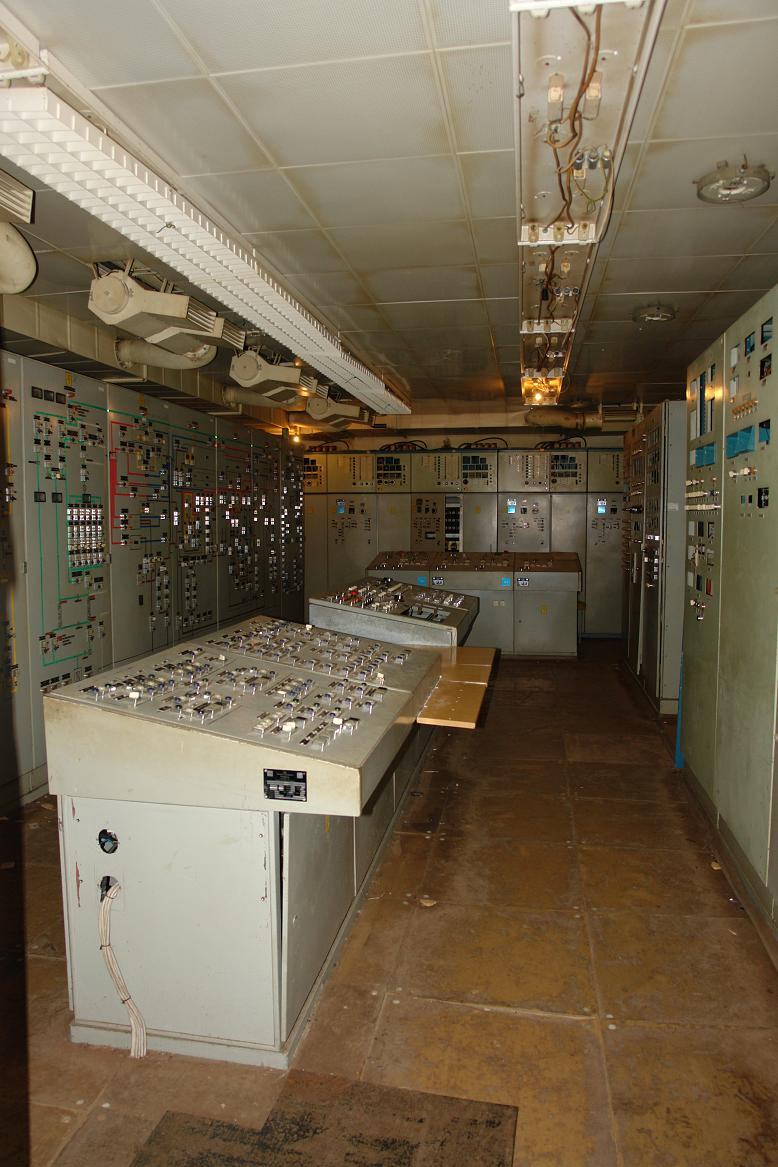 The dispatcher control room inside the 17/5001 bunker in Prenden, eastern Germany